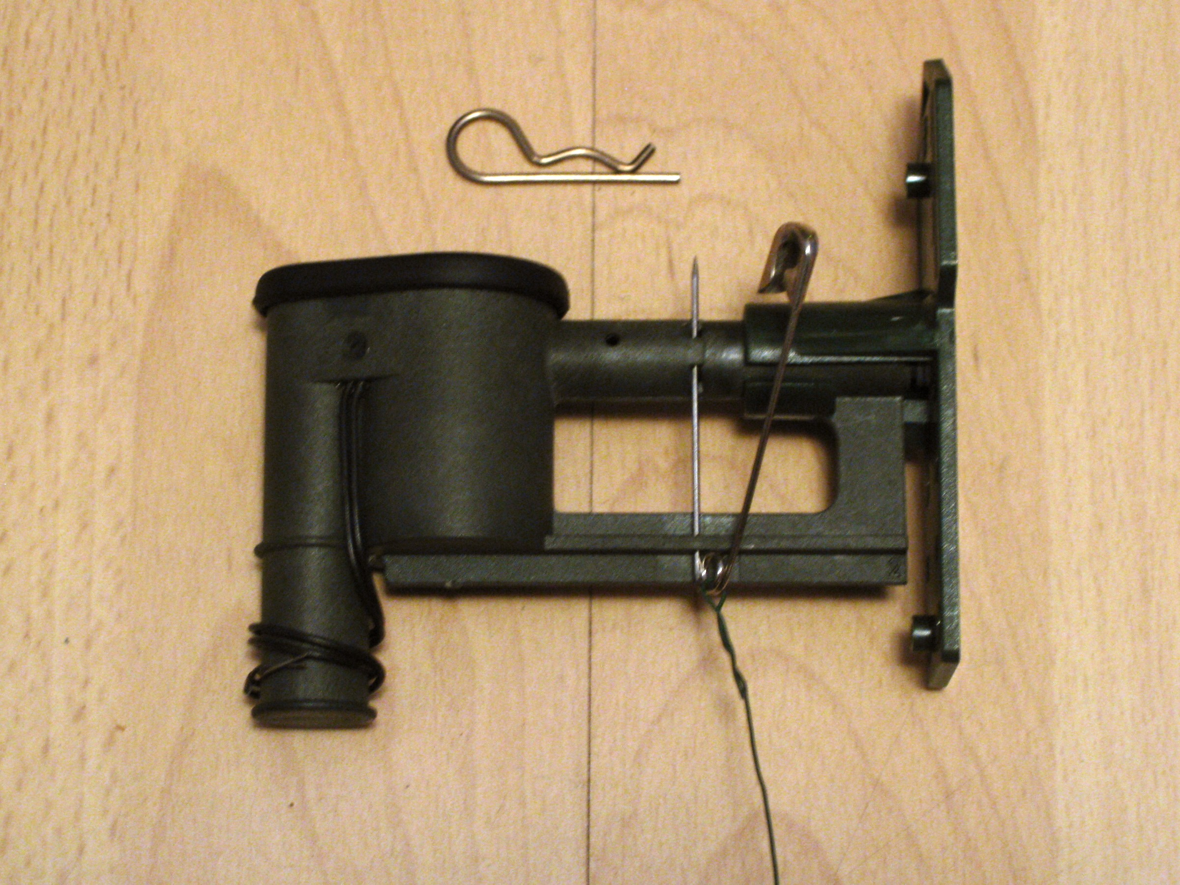 Swedish flare-mine Larmmina 2B.